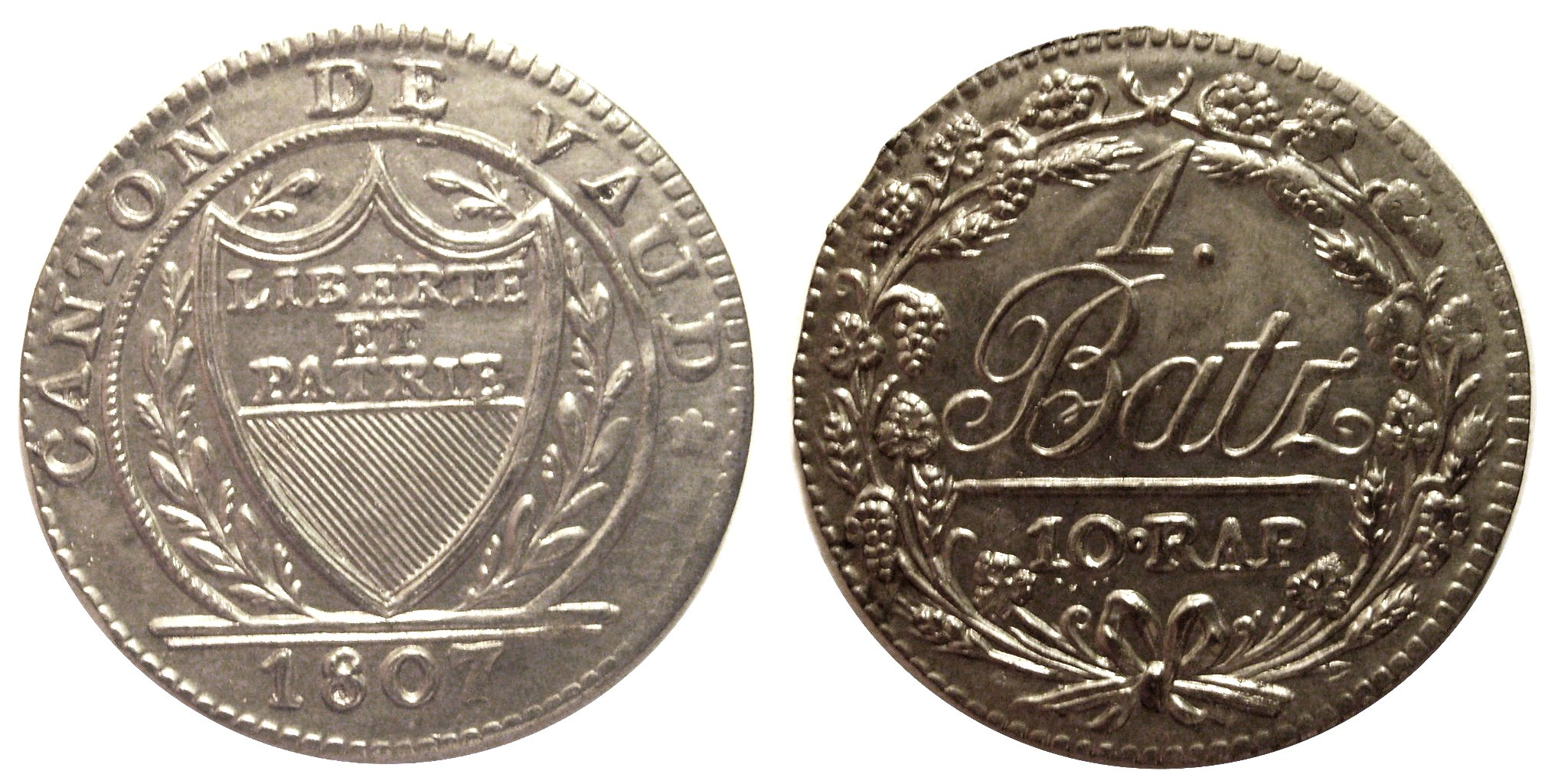 1 batz, Vaud Canton, 1807.